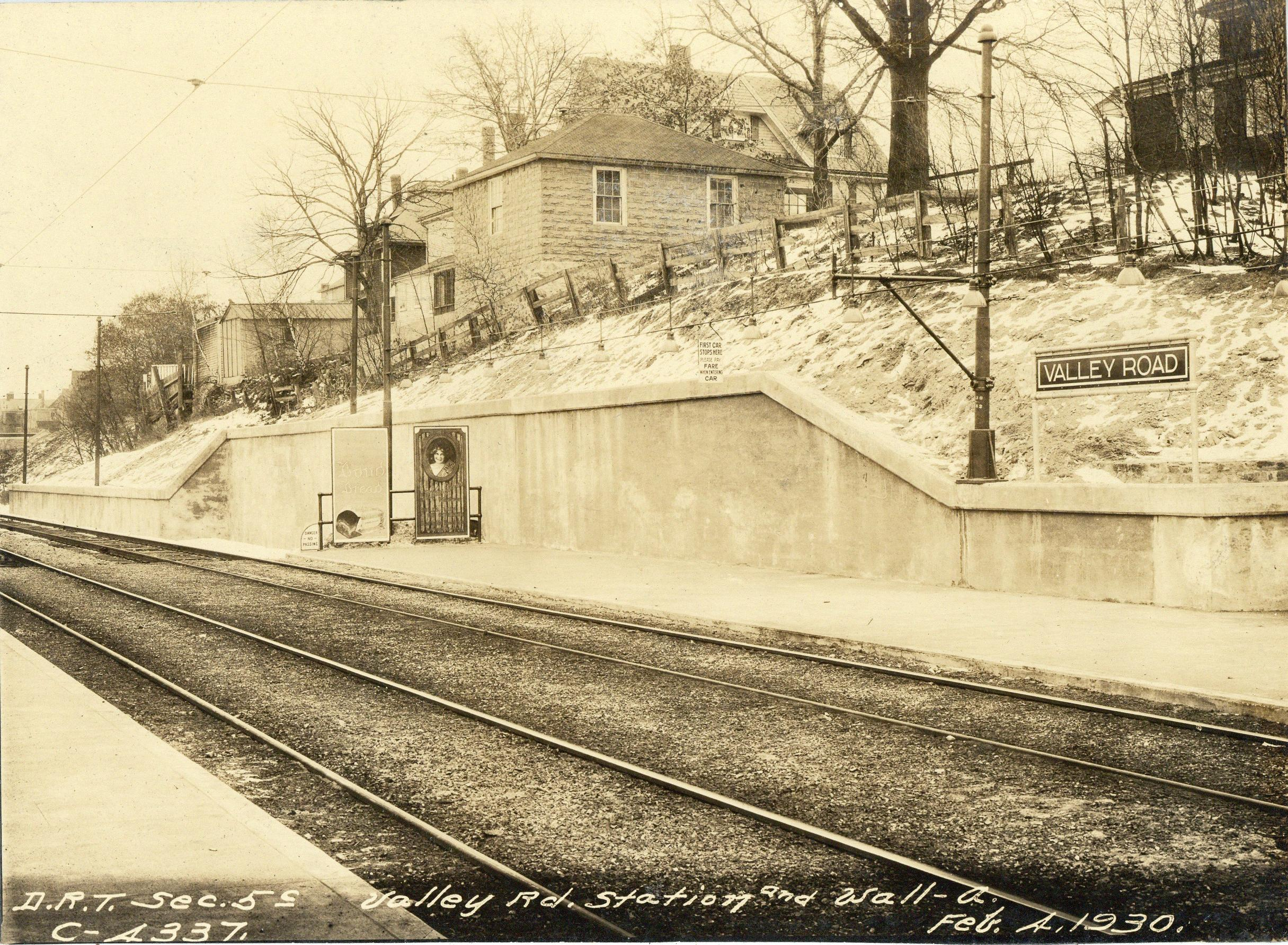 Valley Road station in February 1930, two months after opening